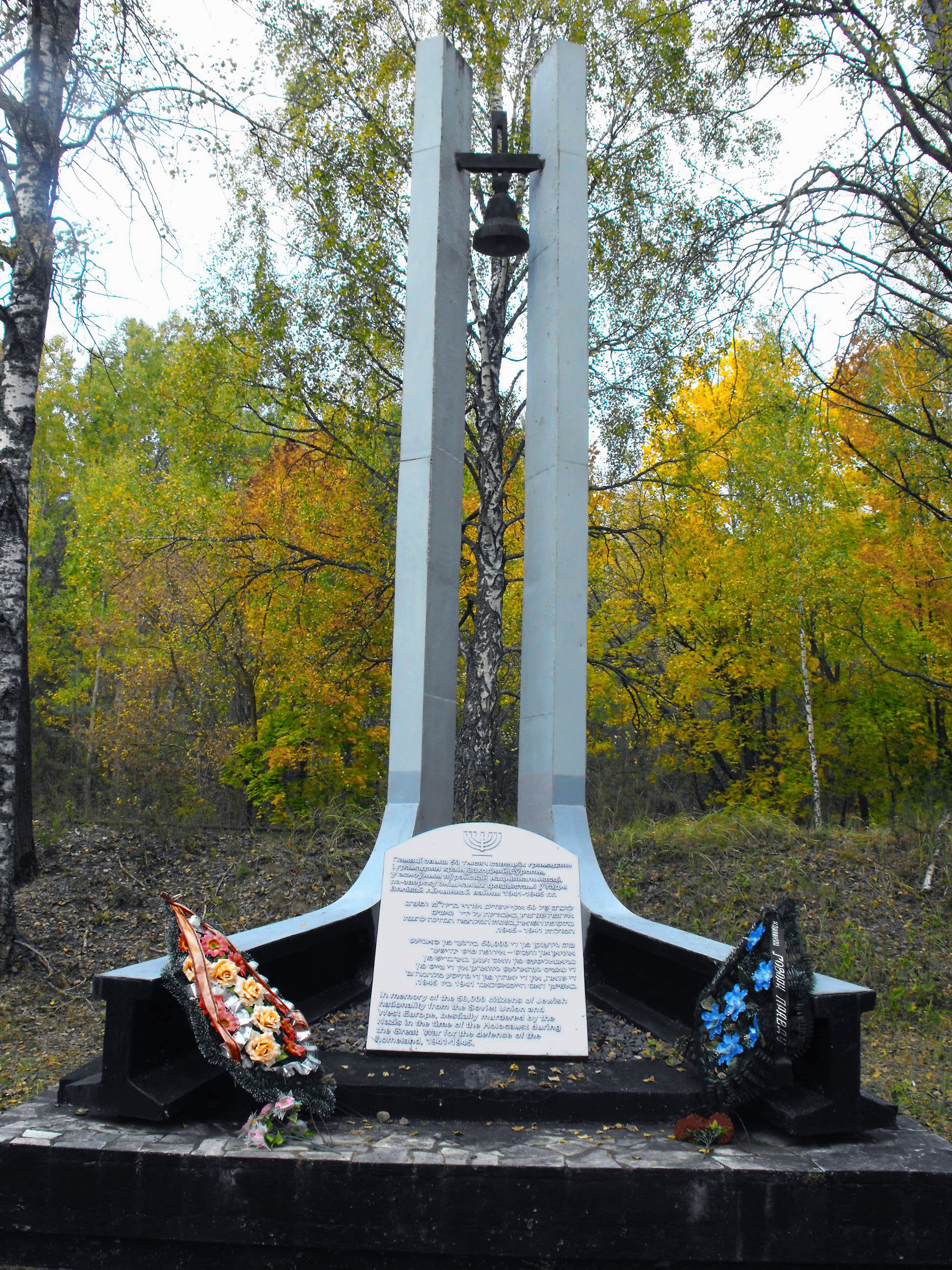 Monument to Jewish victims of massacres at Bronna Góra (or Bronna Mount in English, Belarusian: Бронная гара), a secluded location of mass killings of Polish Jews in the eastern territory of occupied Poland during World War II. The area was invaded by the Soviet Union in 1939, and two years later captured by the Wehrmacht in Operation Barbarossa of 1941. It is estimated that from May 1942 till November of that same year, during the most deadly phase of the Holocaust in Poland, some 50,000 Jews: men, women and children were murdered there over execution pits.